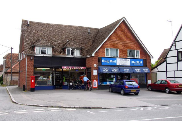 Shops in Drewitts Corner, Harwell, Oxfordshire (formerly Berkshire), seen from west-northwest